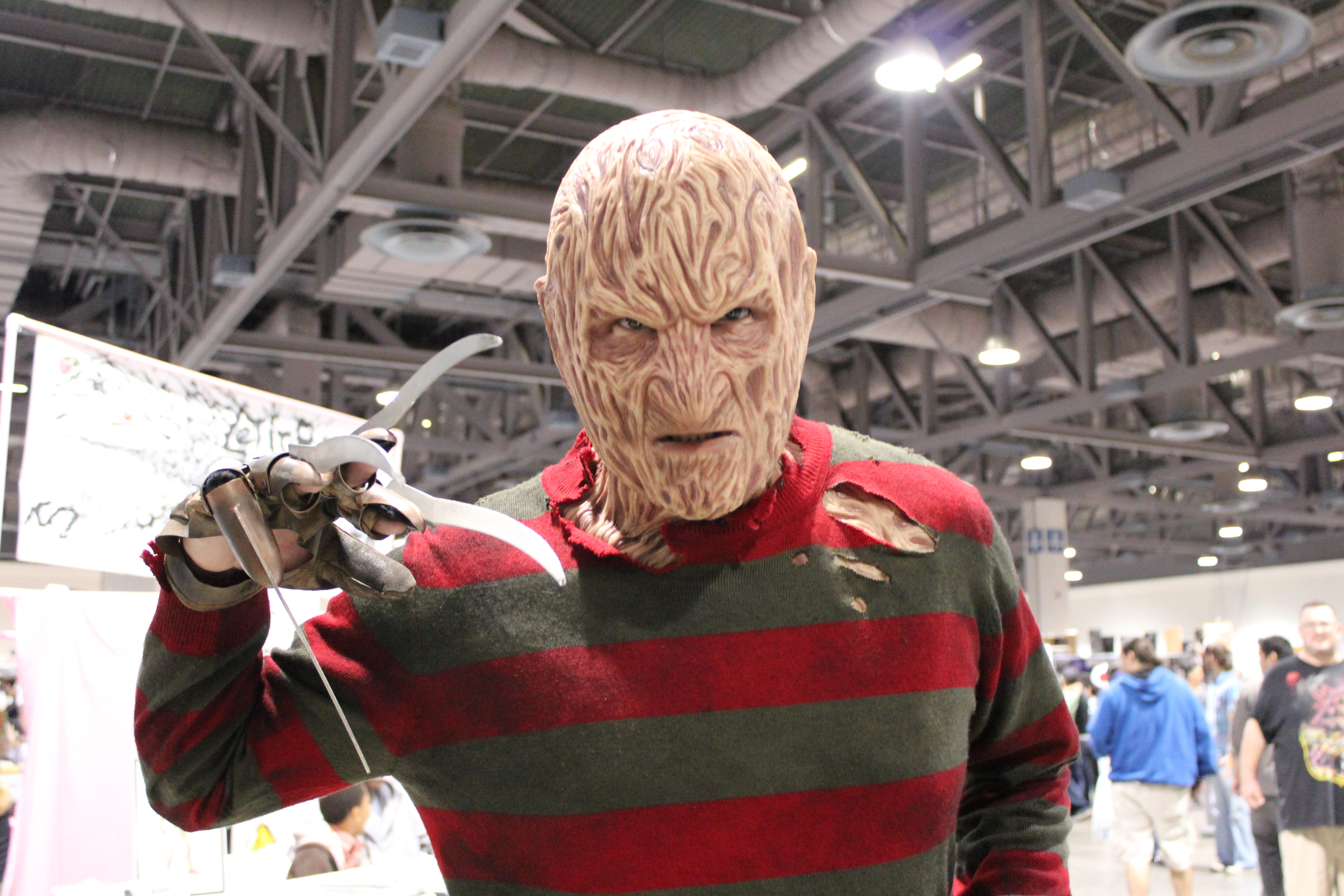 Cosplay at Long Beach Comic & Horror Con 2012.